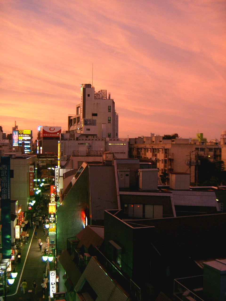 Summer 2006 Sean Wilson, Nakano, Tokyo , Sunset